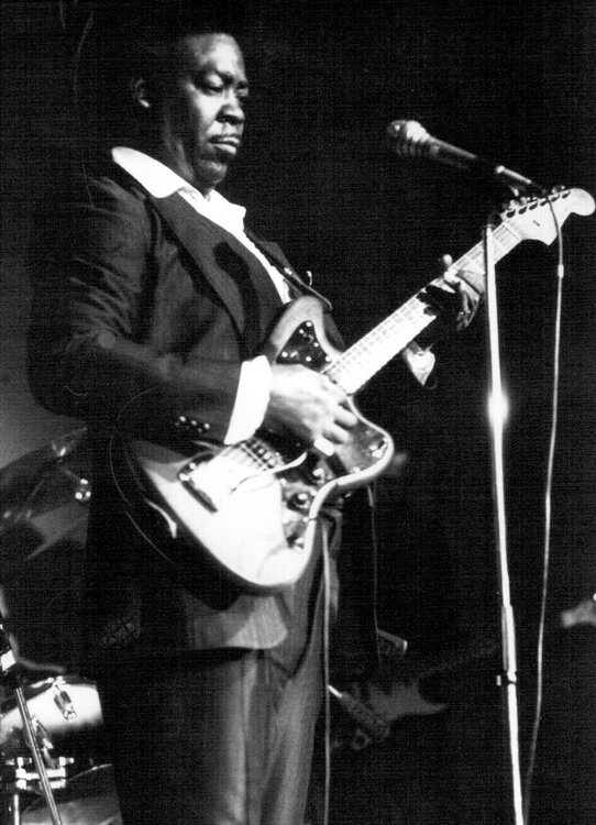 American blues guitarist and singer Larry Davis in Paris, France